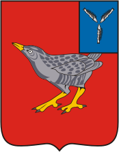 Dergachi rayon (Saratov oblast), coat of arms